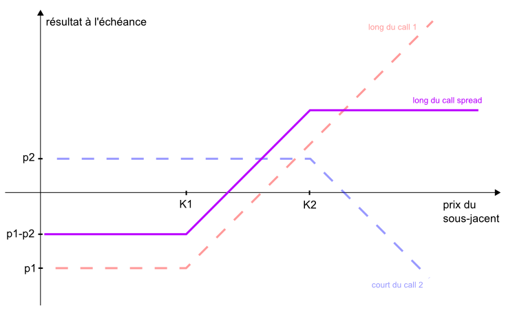 Profit profile from a long call spread strategy